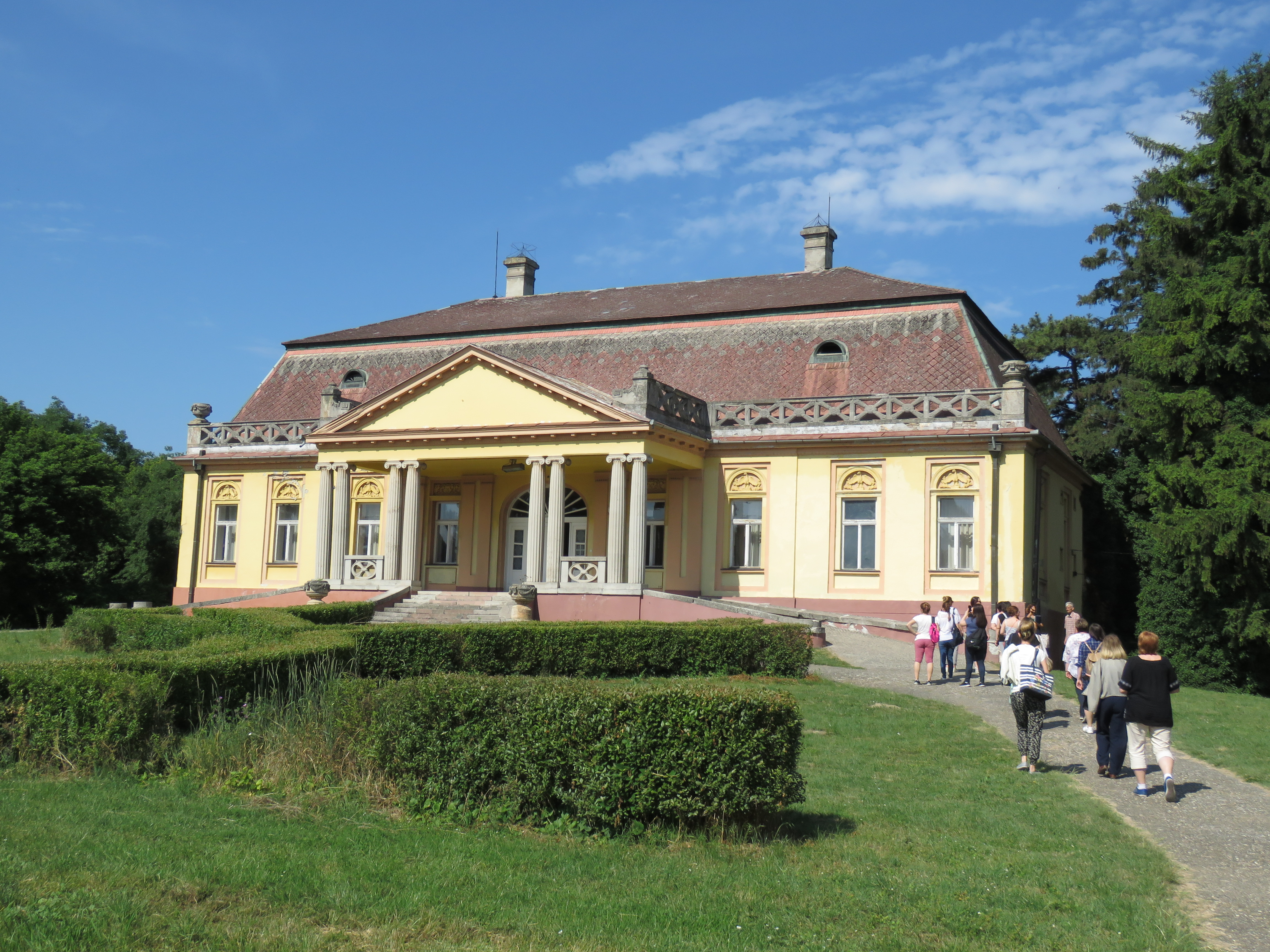 Dunđerski Castle in Kulpin, Serbia.